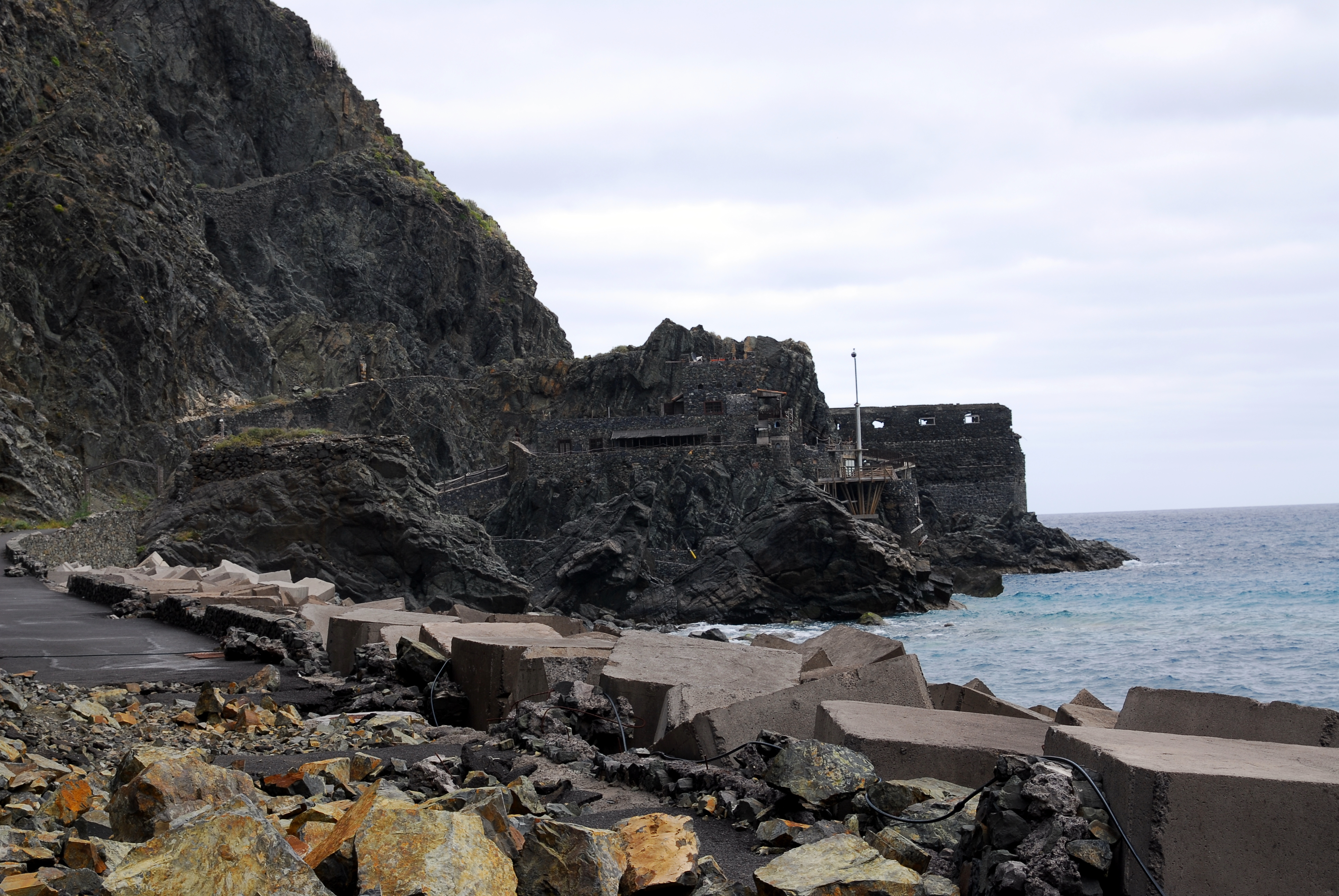 Castillo del Mar in Vallehermoso (La Gomera)